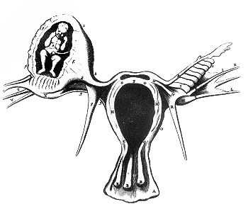 Ectopic pregnancy by R. de Graaf in the monograph De Mulierum Organis Generationi Inservientibus, a reprint from the letter to the Royal Society of the French surgeon Benoit Vassal from 1669